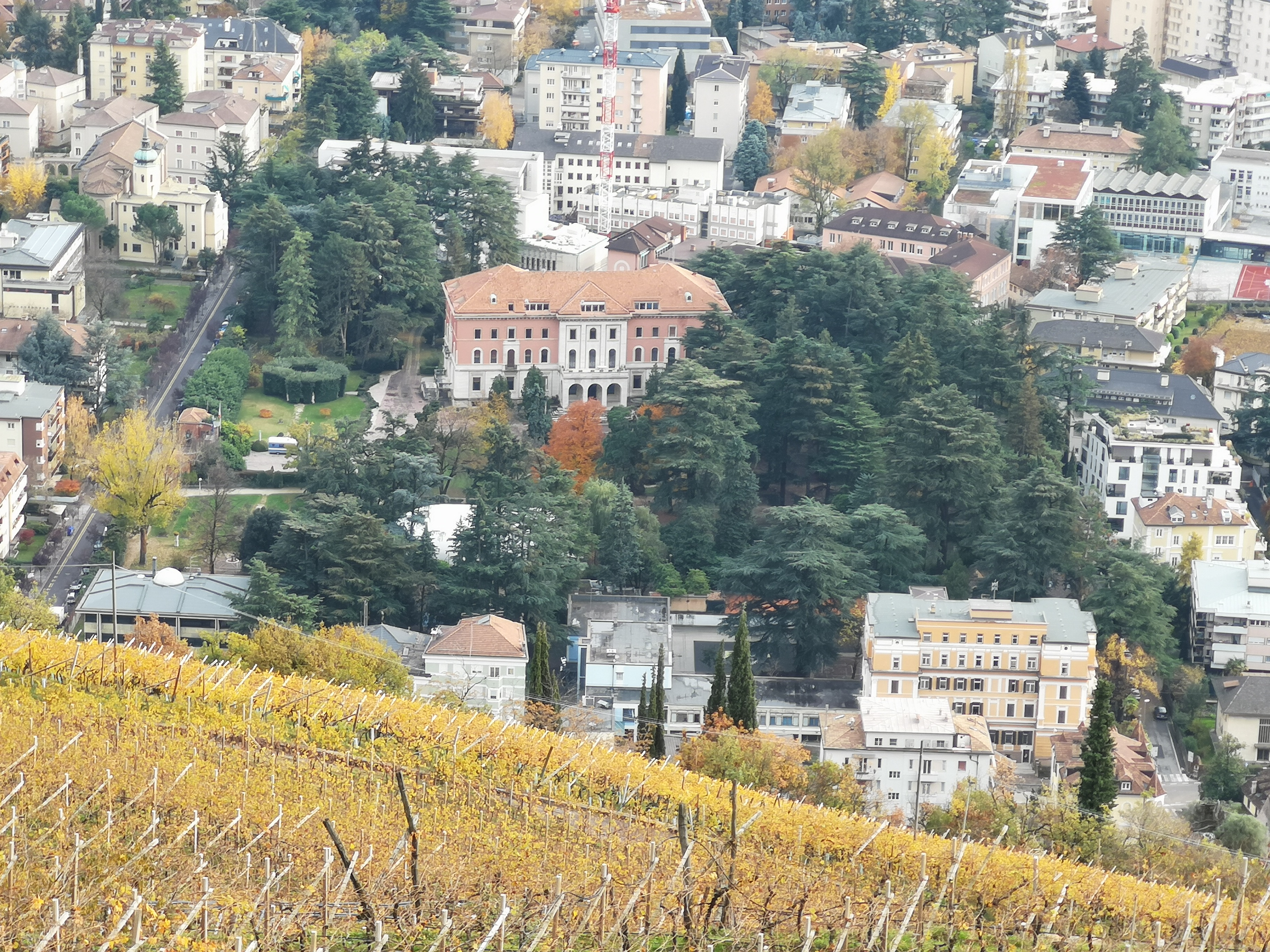 The Herzogspark and Herzogspalast in Bolzano-Gries, South Tyrol